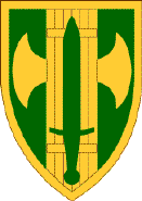 18th Military Police Brigade shoulder sleeve insignia